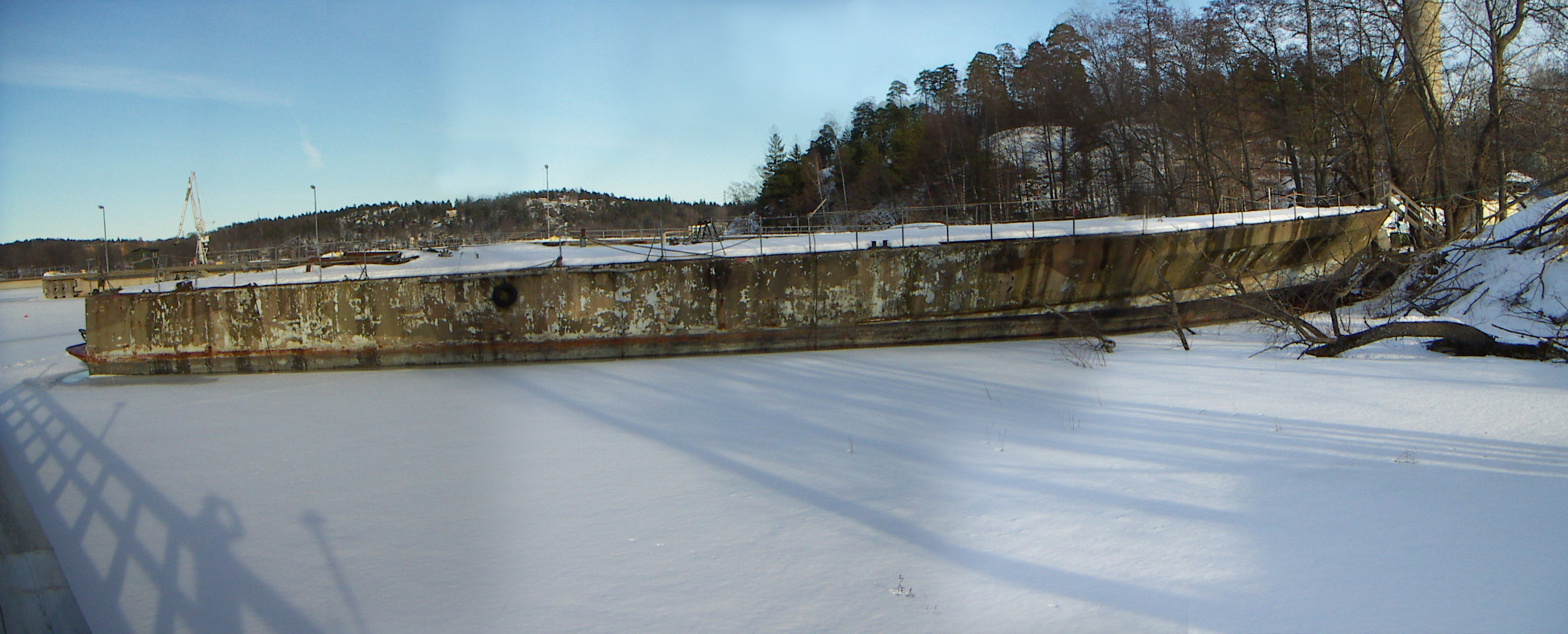 A photo of former torpedoboat T126 HMS Virgo, now only the hull left. Taken at Slagsta Marina in Stockholm by me, Joakim Persson